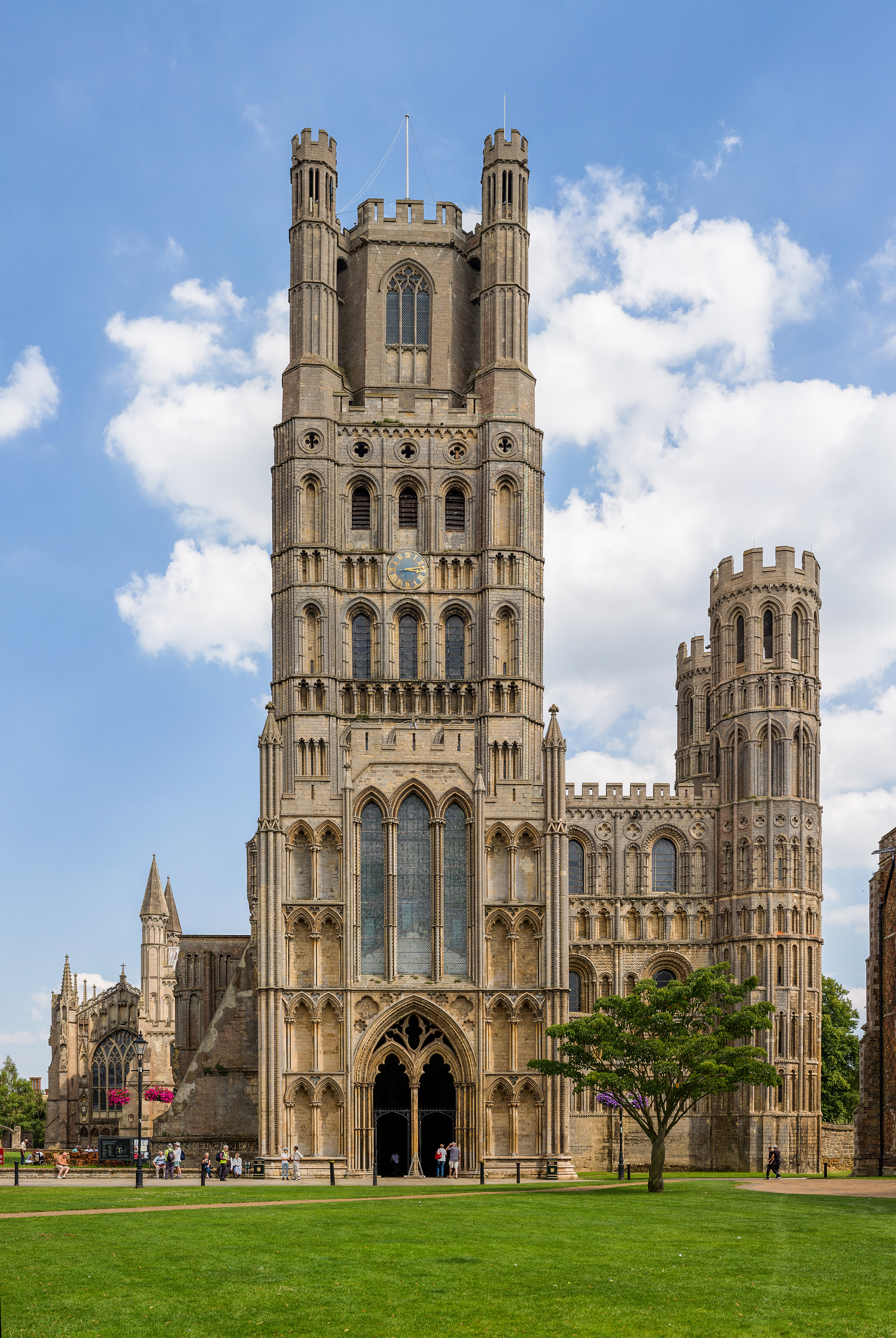 The exterior of Ely Cathedral, Cambridgeshire, England, viewed from the west.